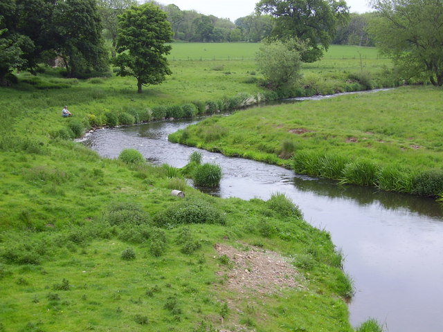 River Tyne near Abbey Mill, Haddington This, near the site of an ancient abbey, is a favourite spot for anglers.